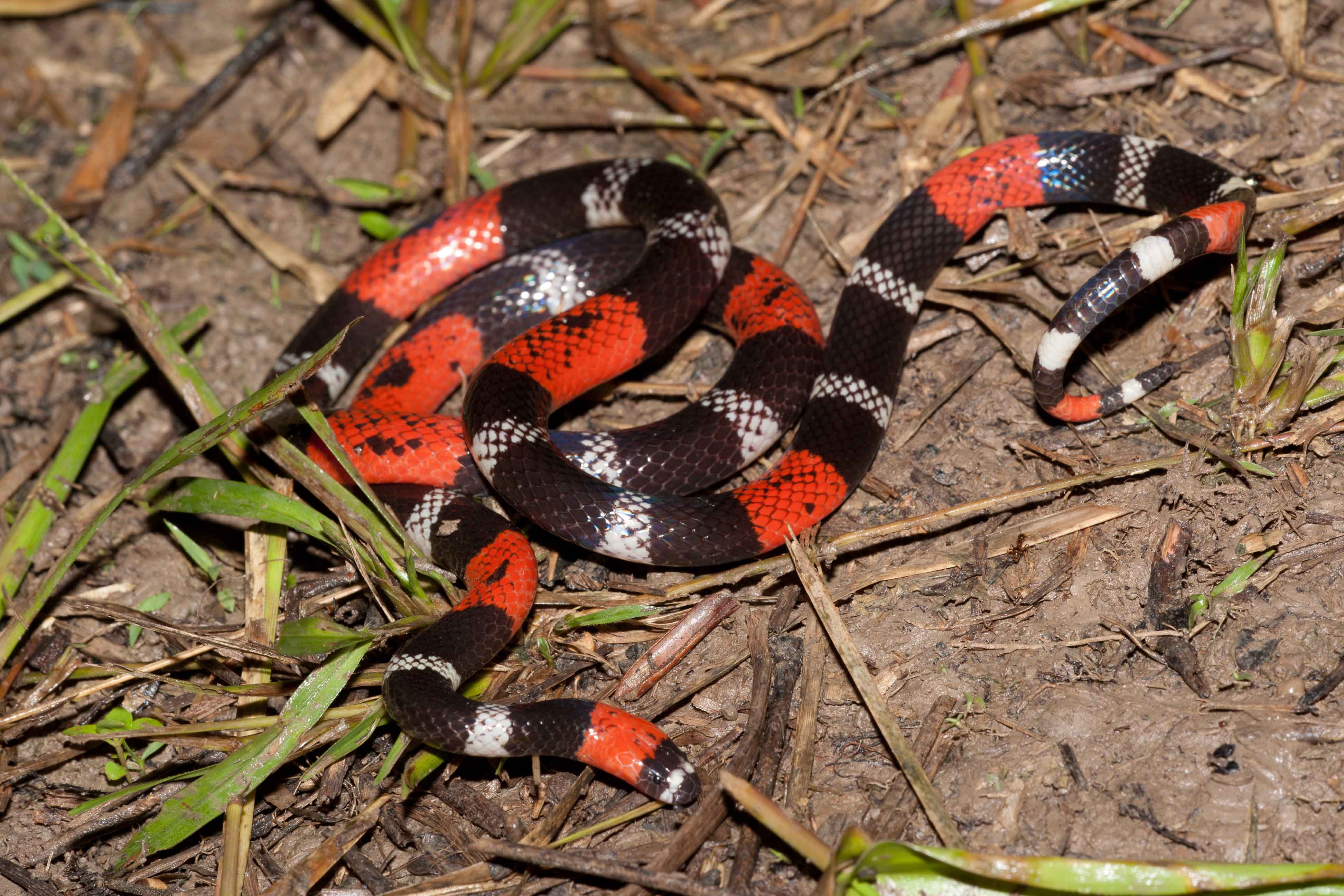 South American Coral Snake (Micrurus lemniscatus) in Peru.